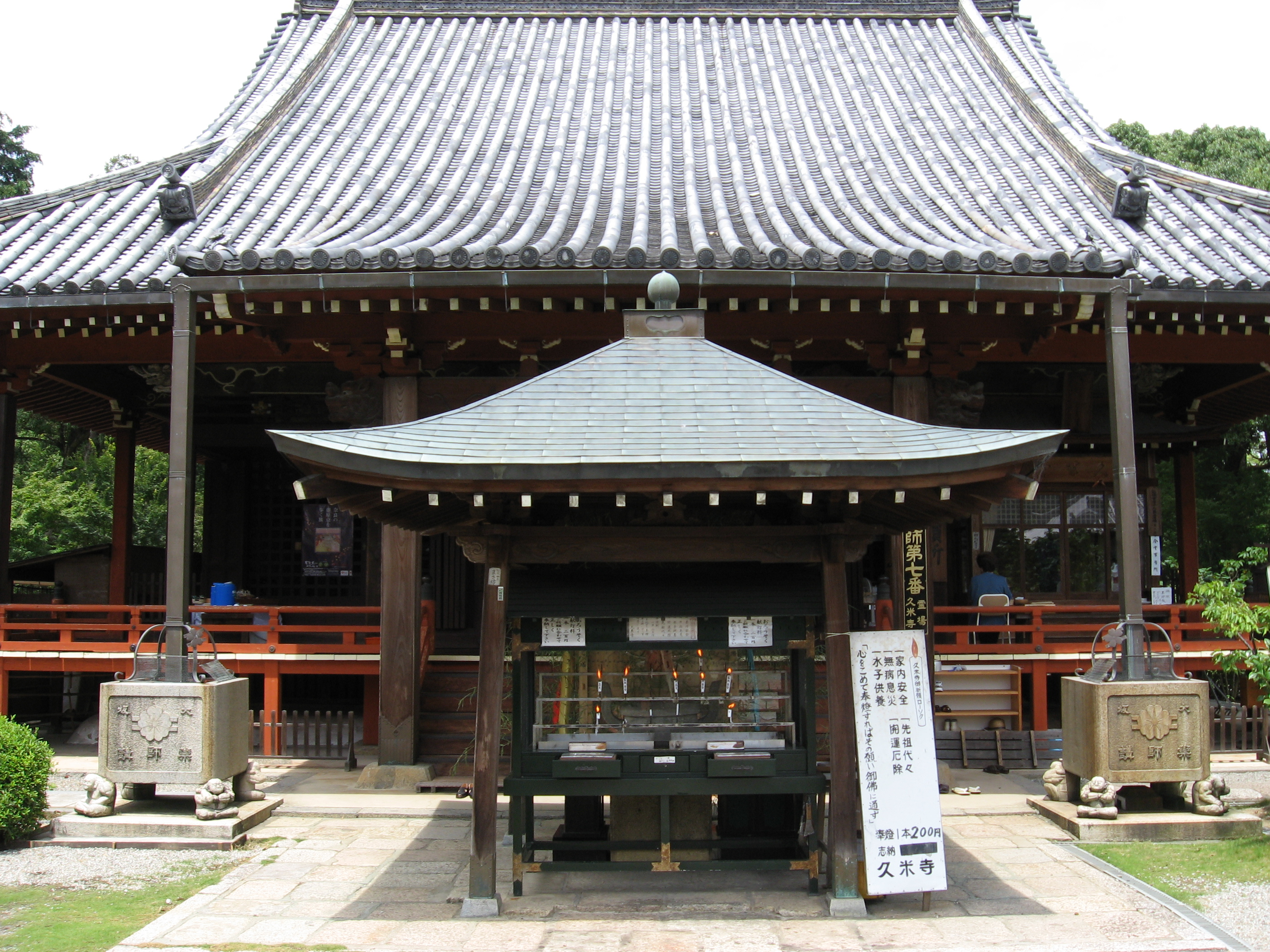 Kume-dera